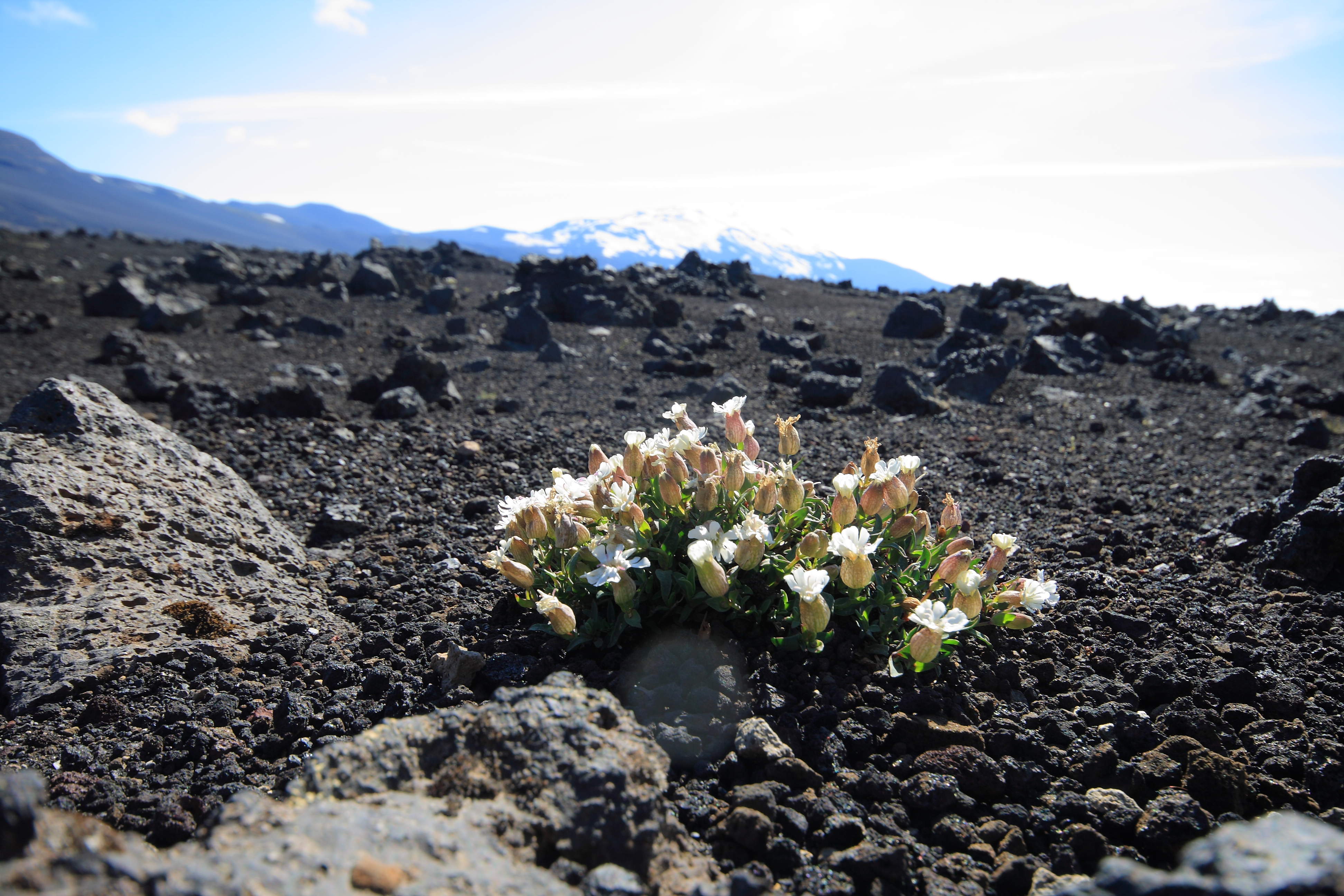 Flower Near Hekla